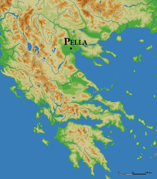 Ancient greek city of Pella - location in Greece. Drawing by Marsyas.